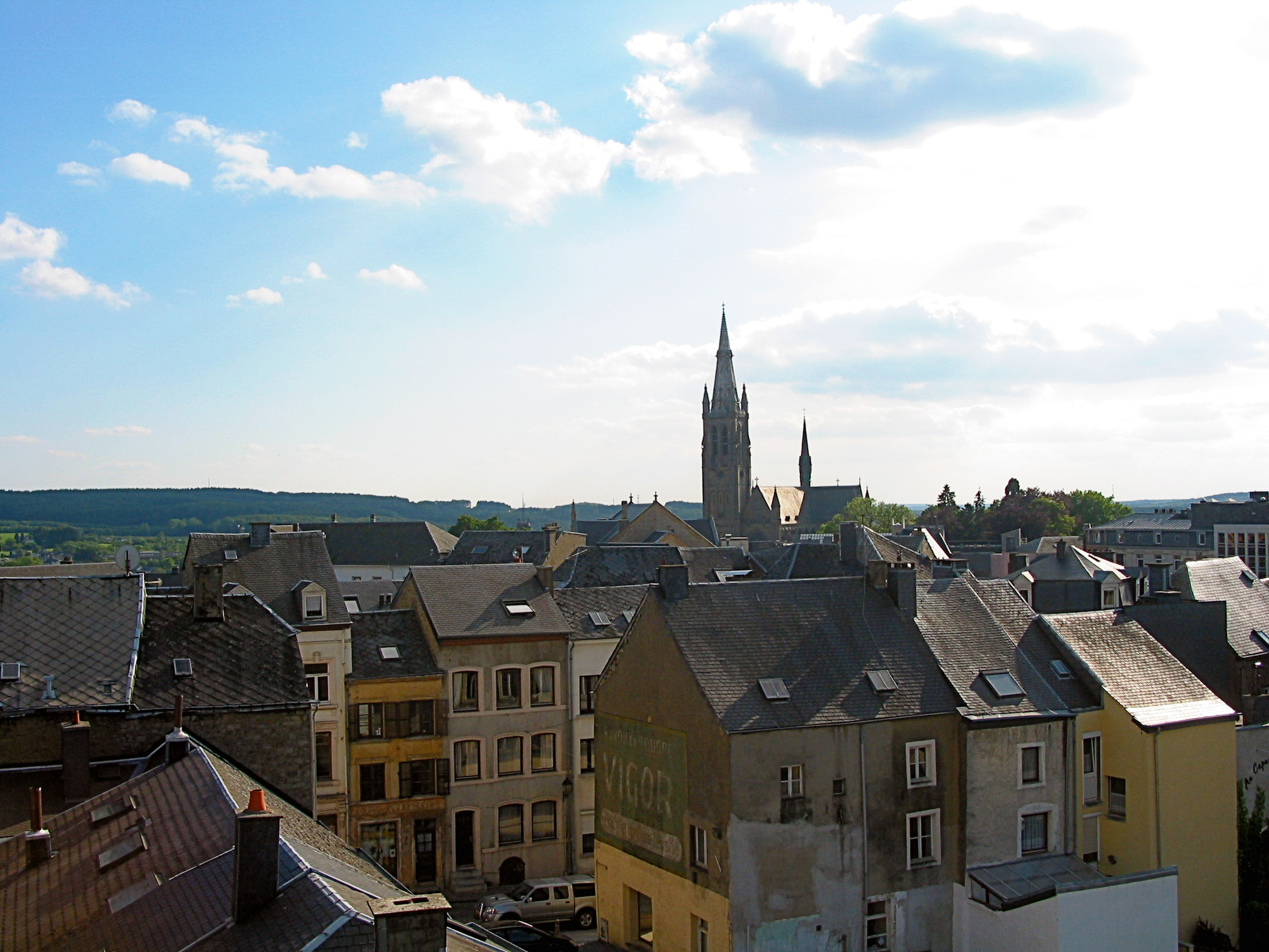 Arlon (Belgium): roofs of the city and bell tower of the St. Martin's church (1907–1914).